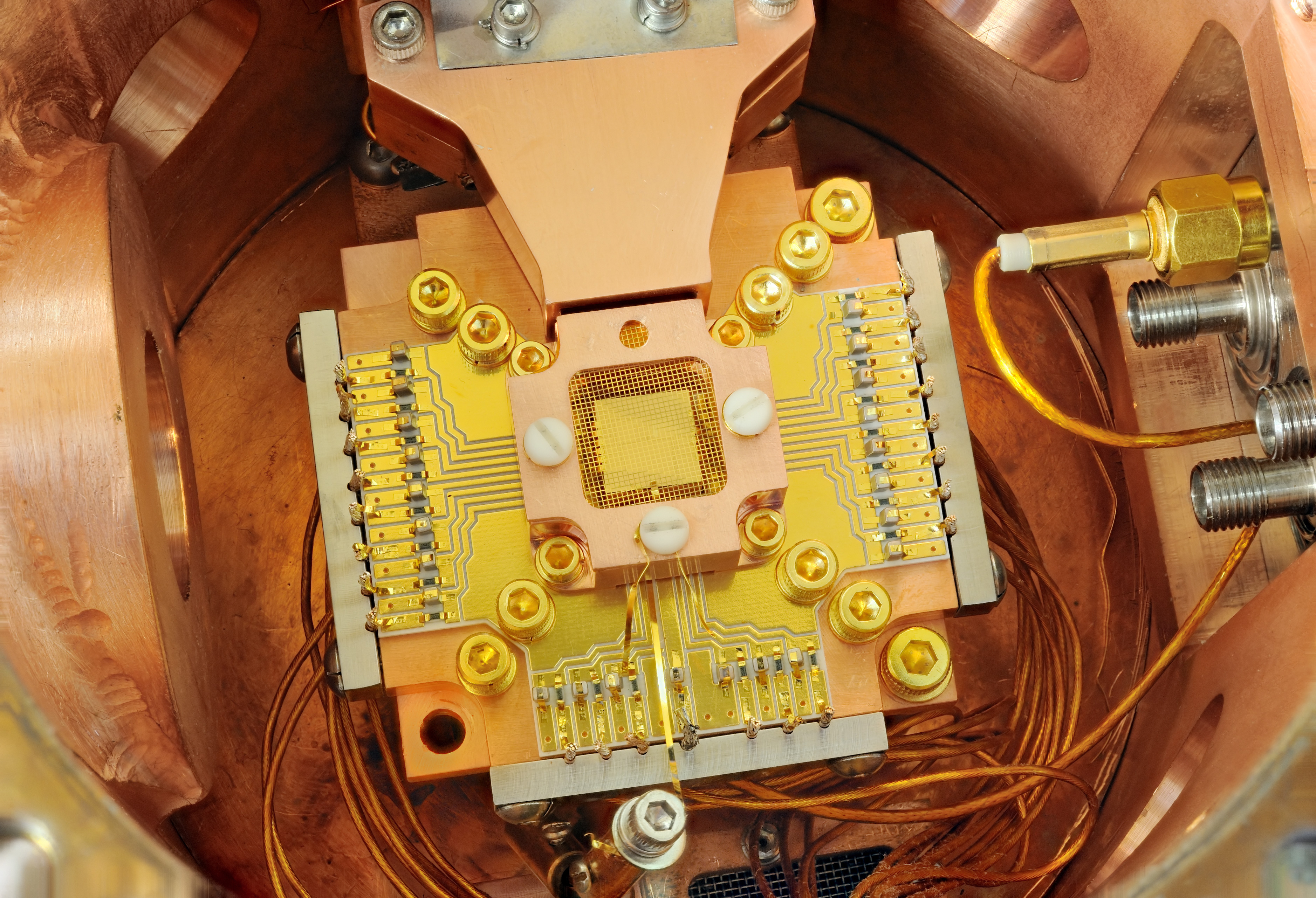 NIST physicists used this apparatus to coax two beryllium ions (electrically charged atoms) into swapping the smallest measurable units of energy back and forth, a technique that may simplify information processing in a quantum computer. The ions are trapped about 40 micrometers apart above the square gold chip in the center. The chip is surrounded by a copper enclosure and gold wire mesh to prevent buildup of static charge. Credit: Y. Colombe/NIST Disclaimer: Any mention of commercial products within NIST web pages is for information only; it does not imply recommendation or endorsement by NIST. Use of NIST Information: These World Wide Web pages are provided as a public service by the National Institute of Standards and Technology (NIST). With the exception of material marked as copyrighted, information presented on these pages is considered public information and may be distributed or copied. Use of appropriate byline/photo/image credits is requested.